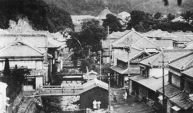 Central Maebashi in Taisho era